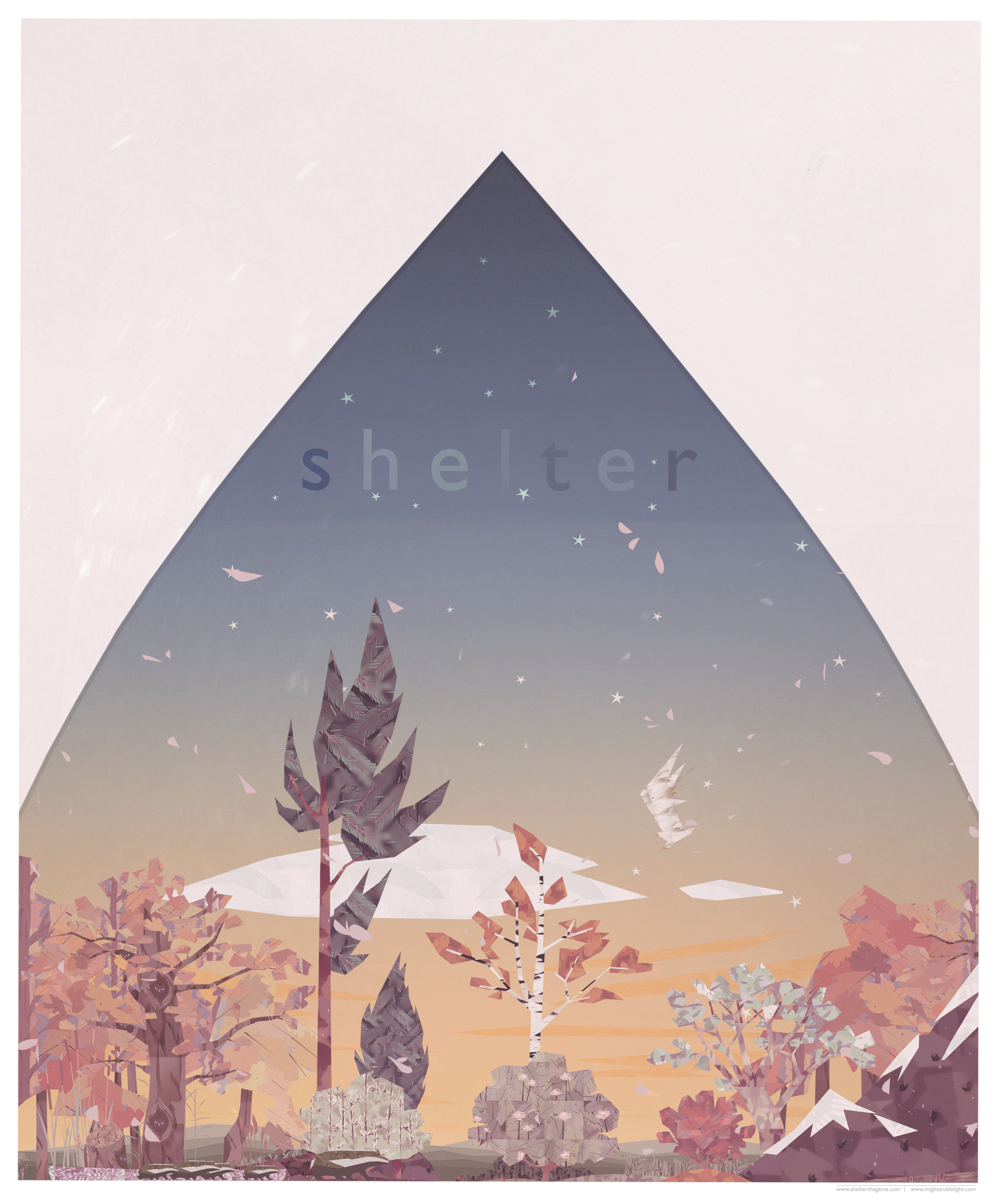 Shelter promotional poster. Released in 2013, the game was developed by Might and Delight.